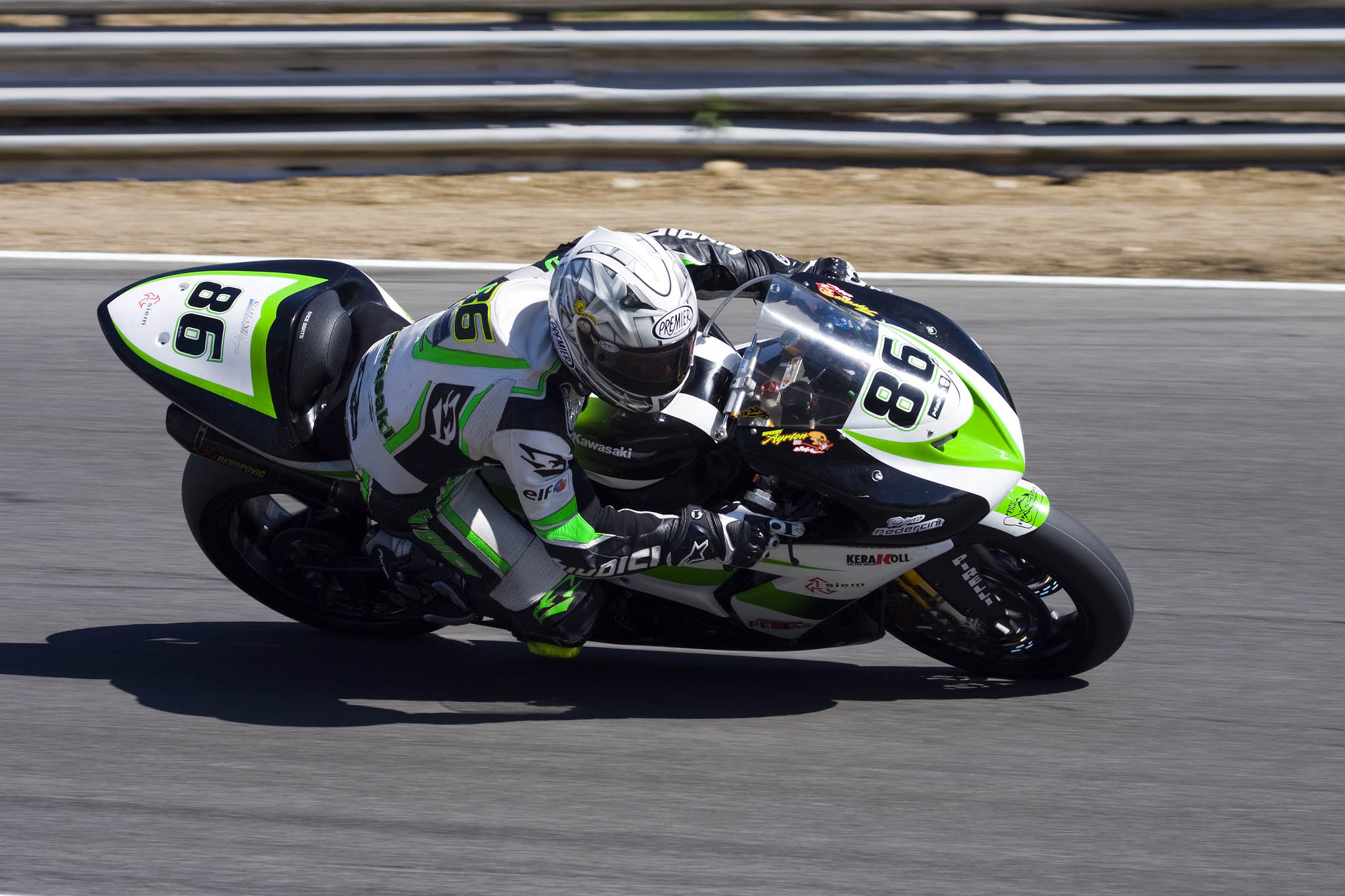 Brands Hatch World Superbike Meeting August 2008 Practice Day. Druids Bend.